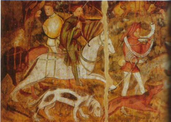 This picture is of a Medieval hunting-dog called a Limer (Fr. Limier) used on a leash to find large game eg deer or wild boar.